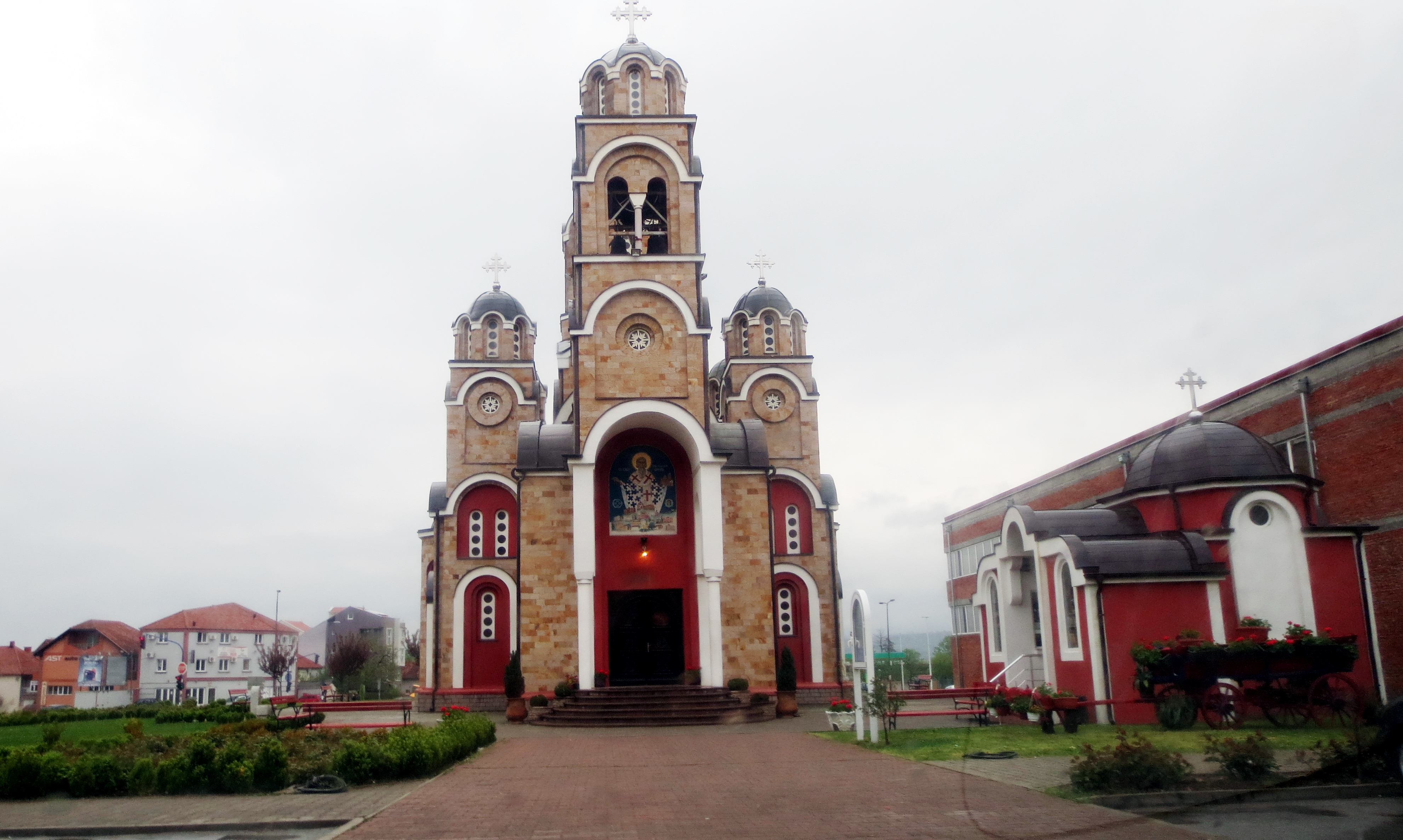 Image from the municipality of Aerodrom, city district of Kragujevac, central Serbia. From the Svetogorska street - Saint Sava Cathedral.